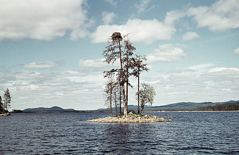 The regulated lake Tisjön in Dalarna, Sweden